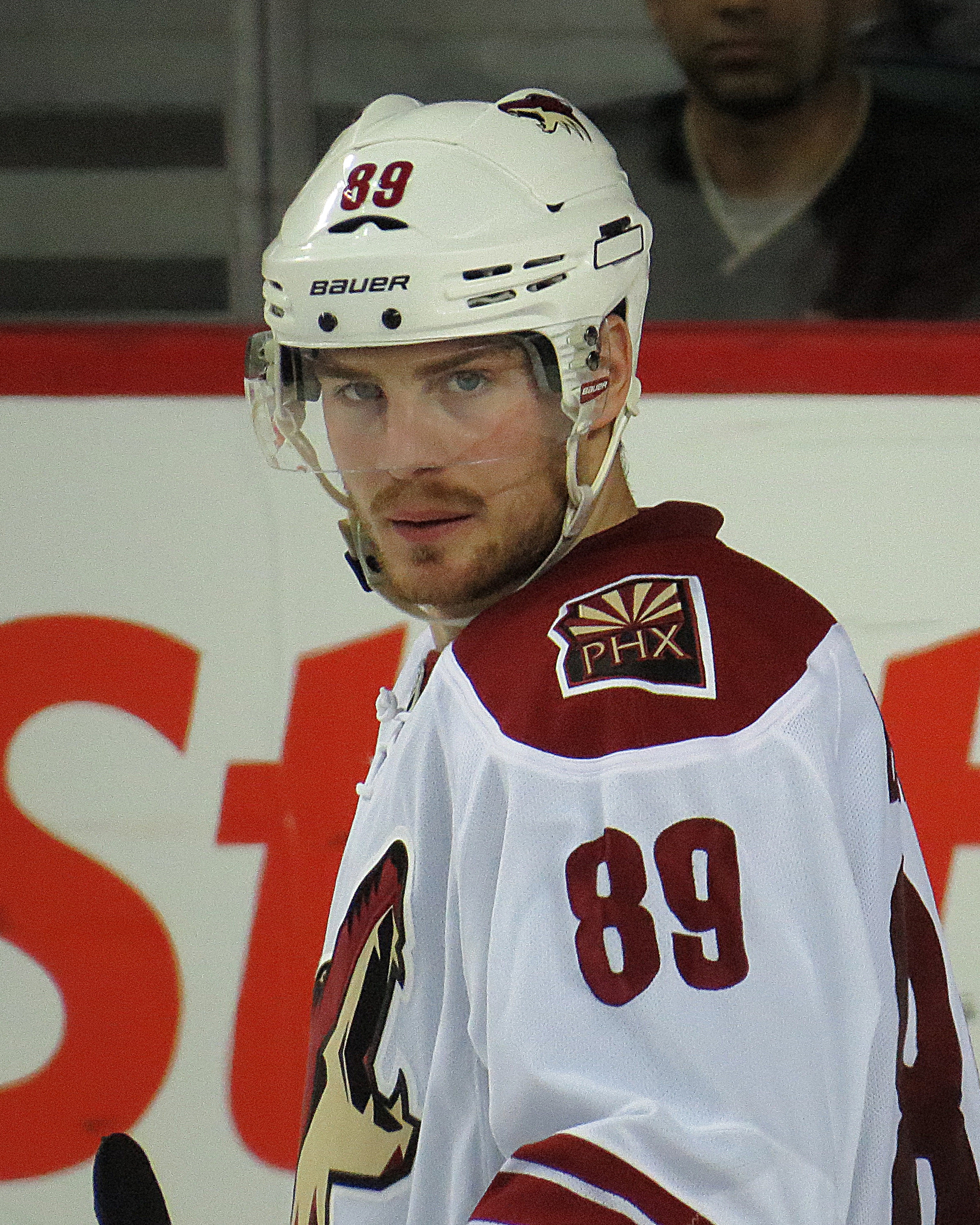 Mikkel Boedker with the Phoenix Coyotes during the 2013–14 season.